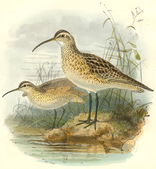 Esquimaux Curlew (Numenius Borealis) Hand-colored lithograph from A History of the Birds of Europe (1871-1881) by Henry Eeles Dresser (1838-1915).